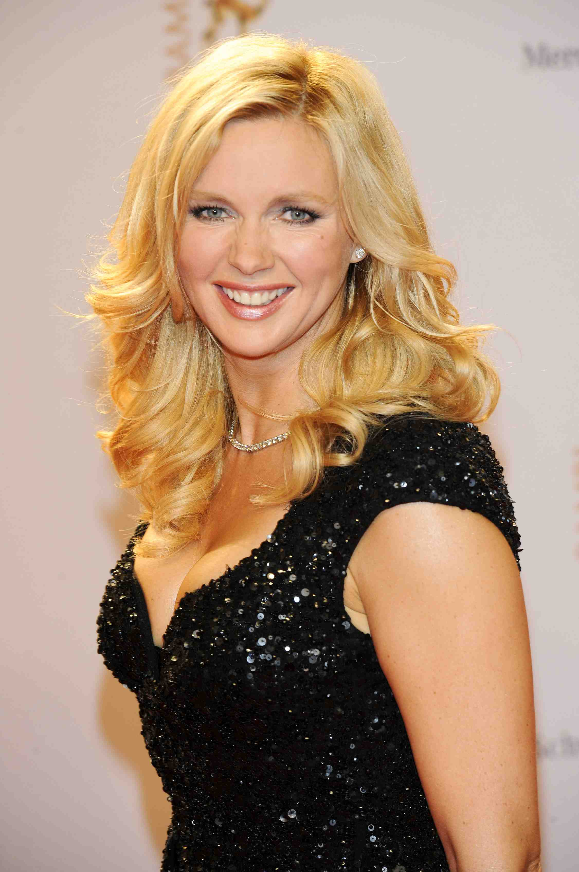 Veronica Ferres - portrait in black dress